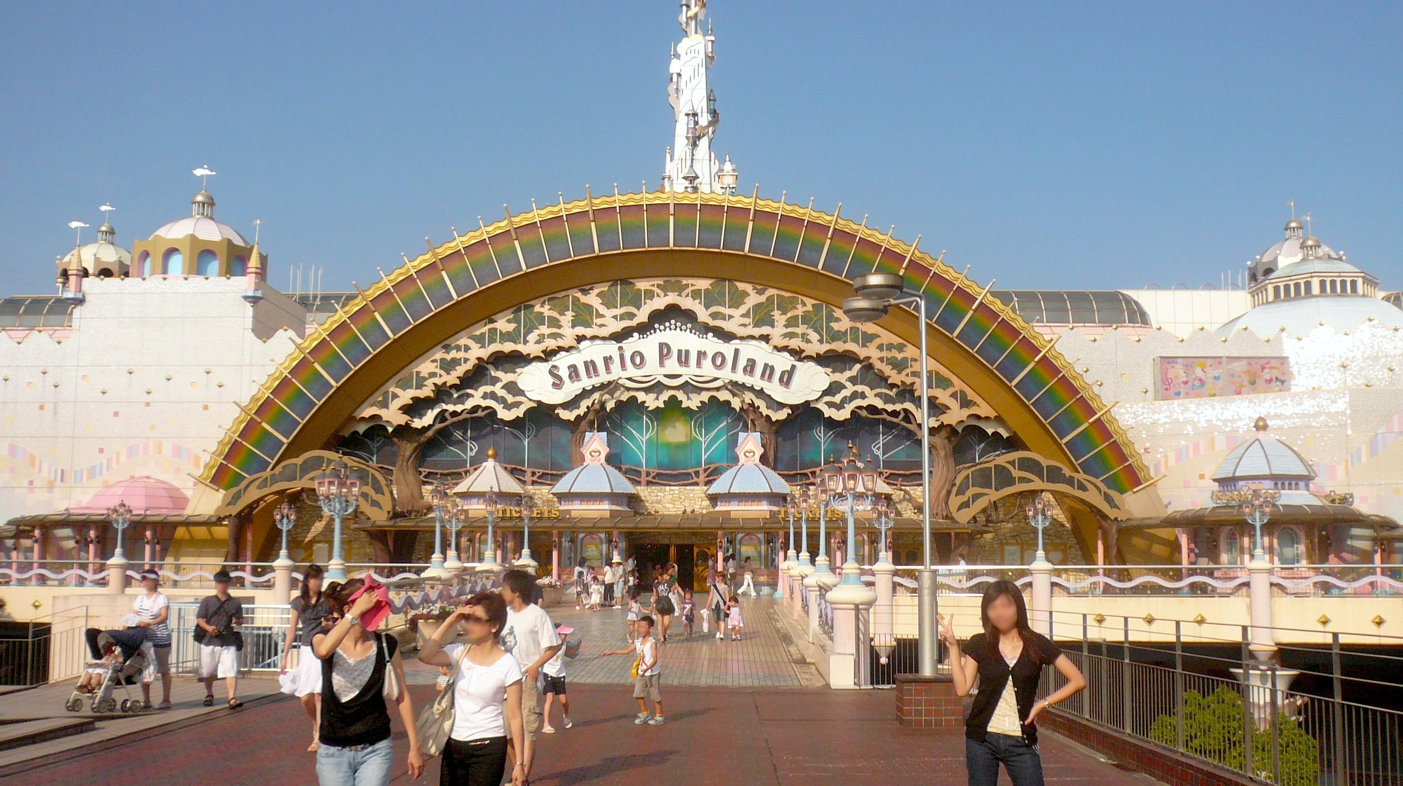 Picture of the outside of Sanrio Puroland. The person posing on the bottom right has had their face obscured since I thought it might be best that way. Picture also cropped from the original source. Enjoy!